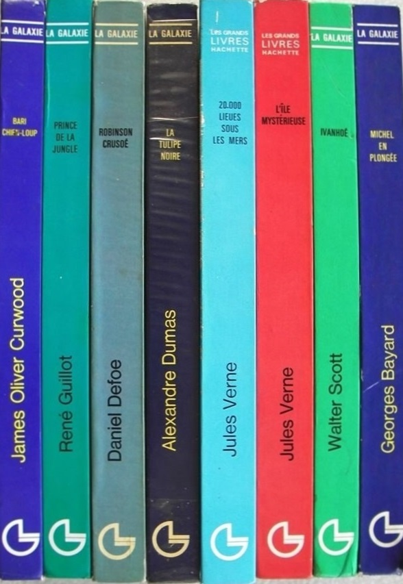 "La Galaxie" books